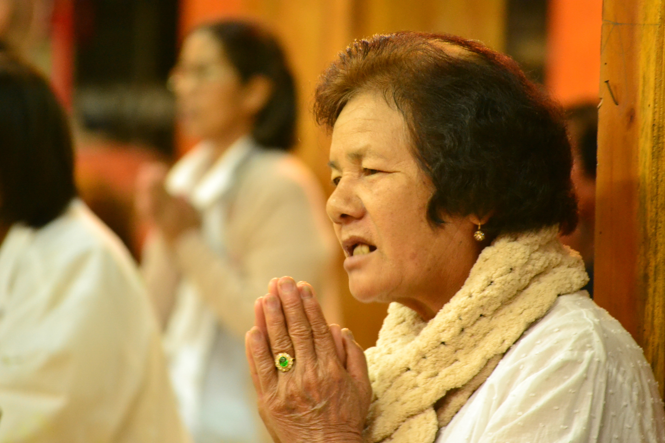 Buddhist Location: Wat Khung Taphao Ban Khung Taphao, Khung Taphao subdistrict, Mueang Uttaradit, Uttaradit Province, Thailand.